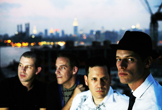 Bell Hollow] 2008 from left to right: Christopher Bollman, Todd Karasik, Greg Fasolino, Nick Niles